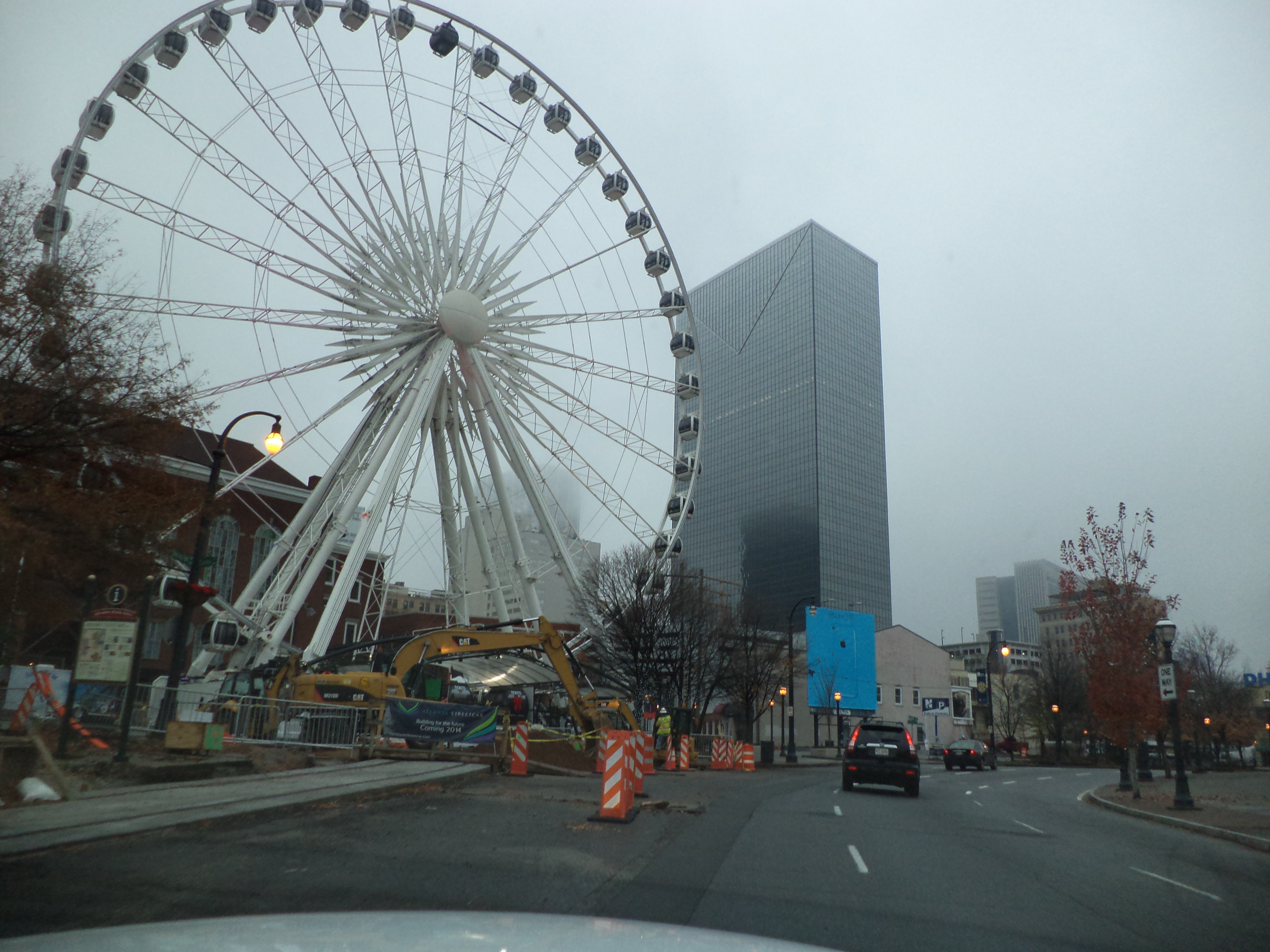 SkyView AtlantaAtlanta, Fulton County, Georgia